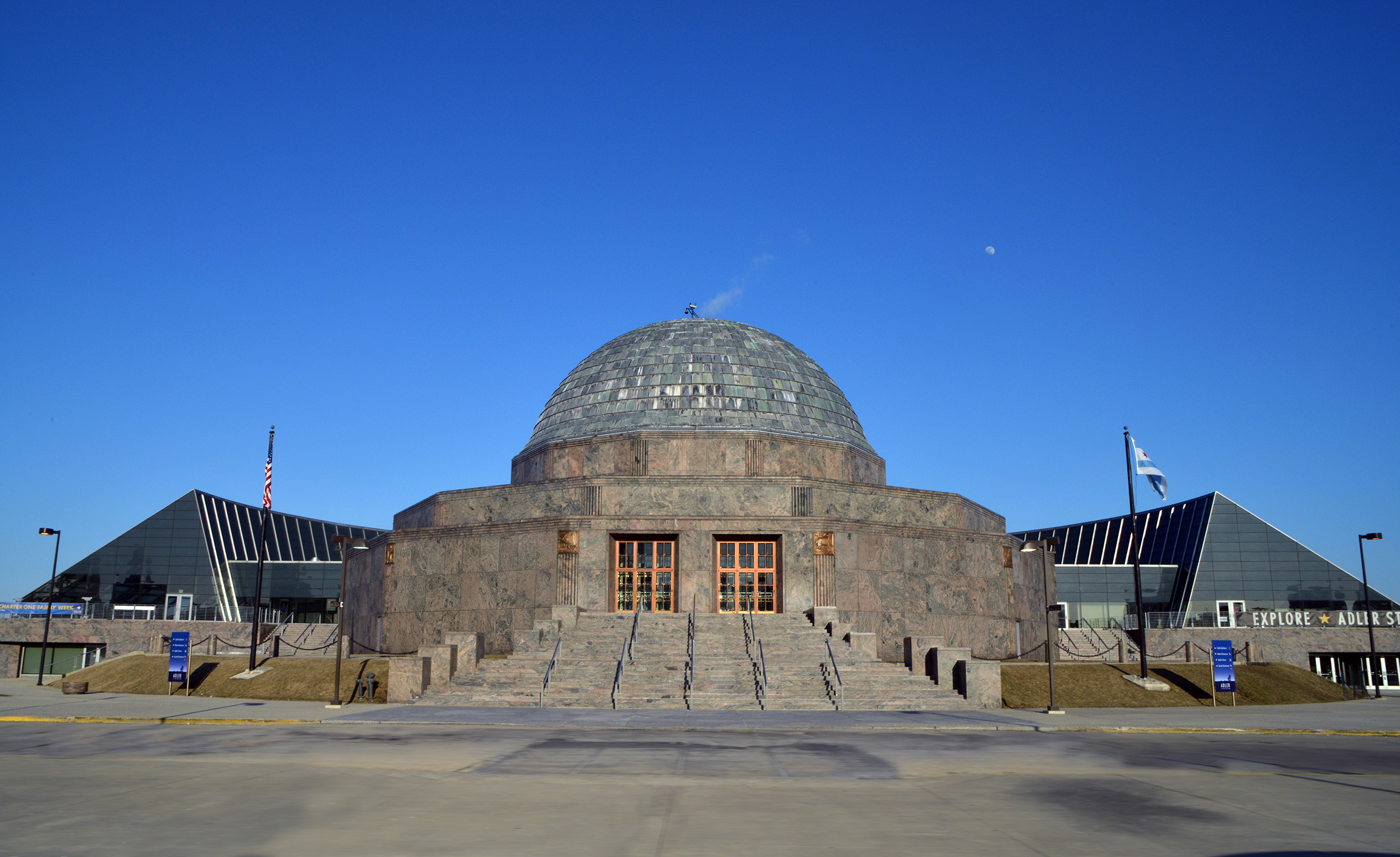 External View of the Adler Planetarium